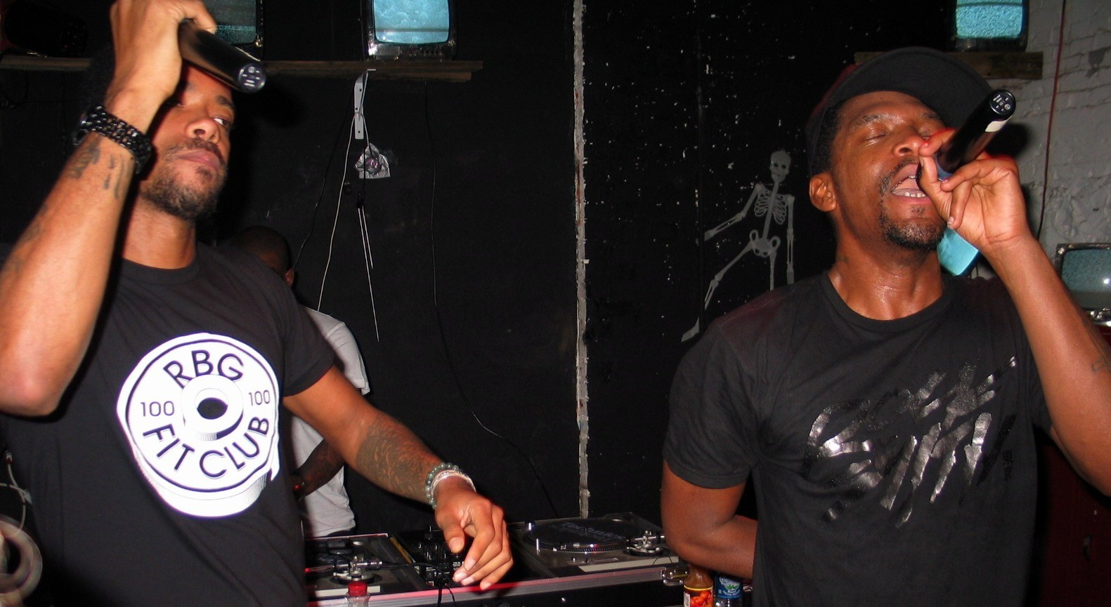 Dead Prez performing in Lansing, Michigan.